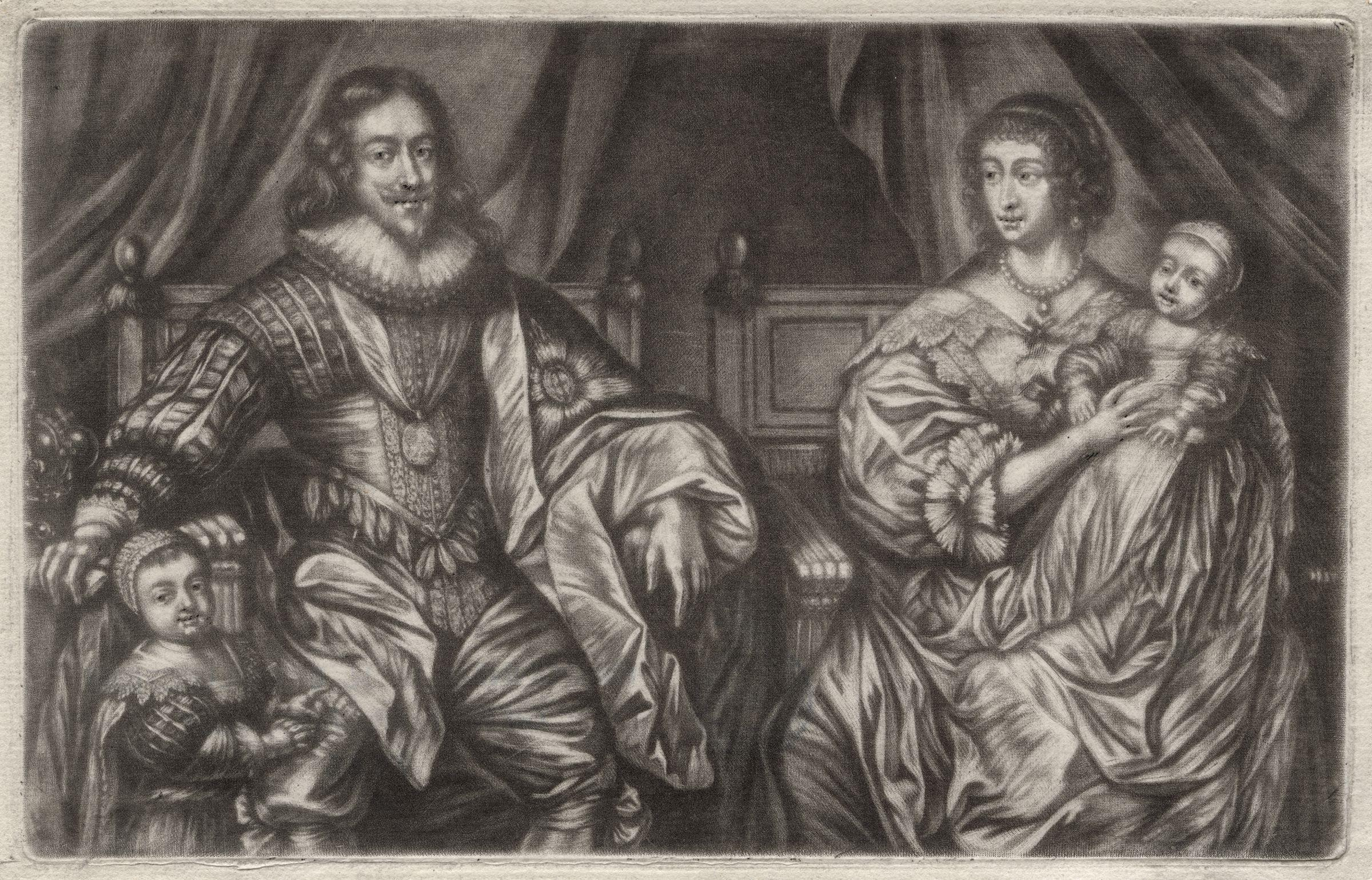 King Charles I; Henrietta Maria; and their two eldest children, King Charles II and Mary, Princess of Orange, by Sir Anthony Van Dyck (died 1641). All images in this batch have been confirmed as author died before 1939 according to the official death date listed by the NPG.